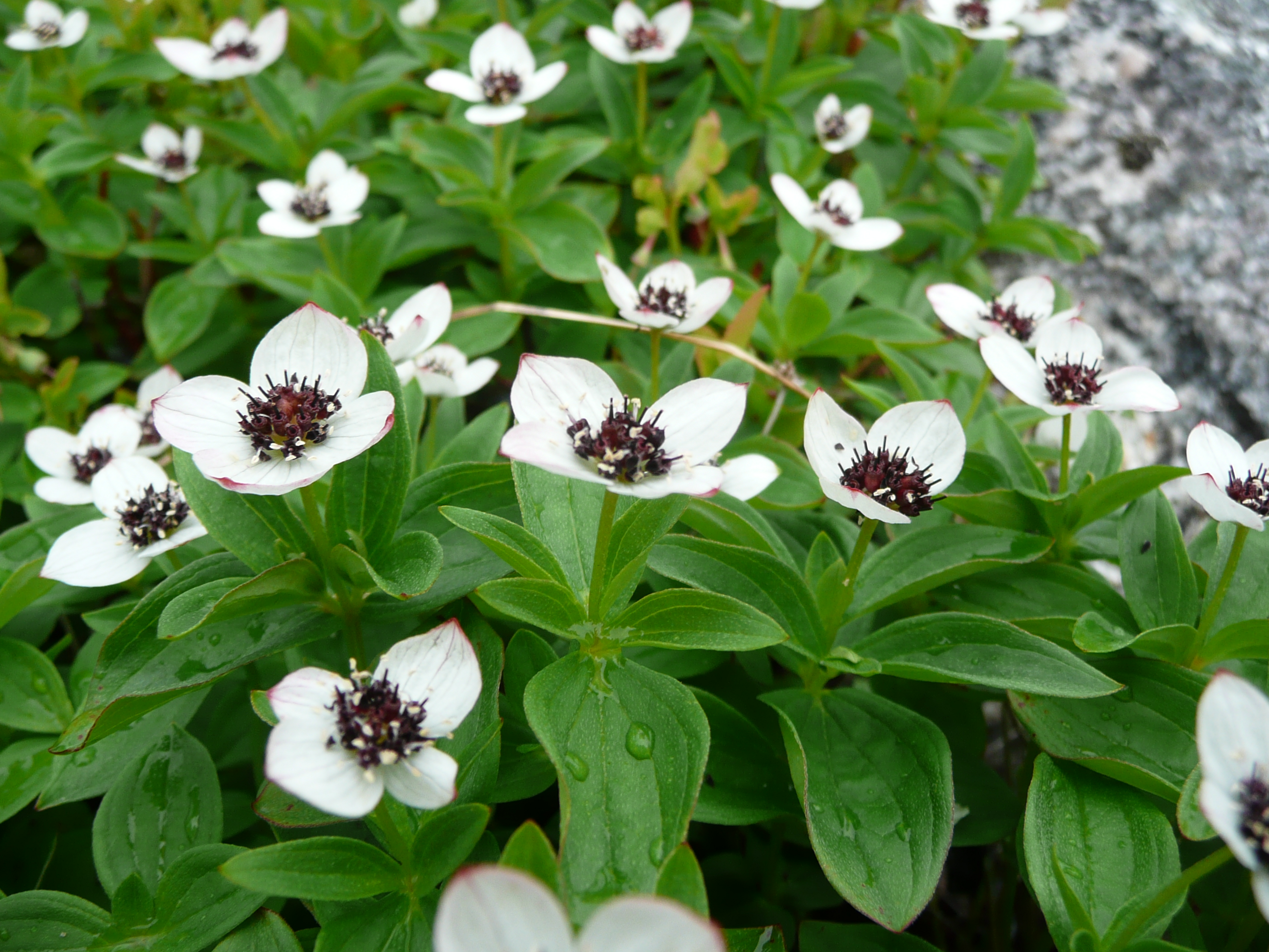 Eurasian Dwarf Cornel (Cornus suecica) in Kilpisjärvi, Enontekiö, Finnish Lapland.